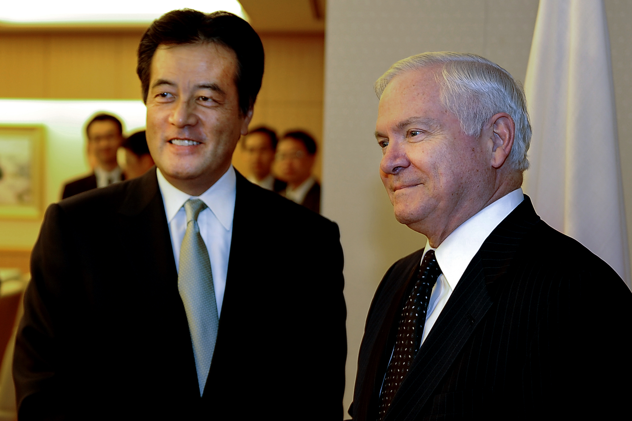 Robert Gates, Secretary of Defense, met Katsuya Okada, Minister for Foreign Affairs, at the Ministry of Foreign Affairs in Chiyoda Ward, Tōkyō Metropolis on October 20, 2009.